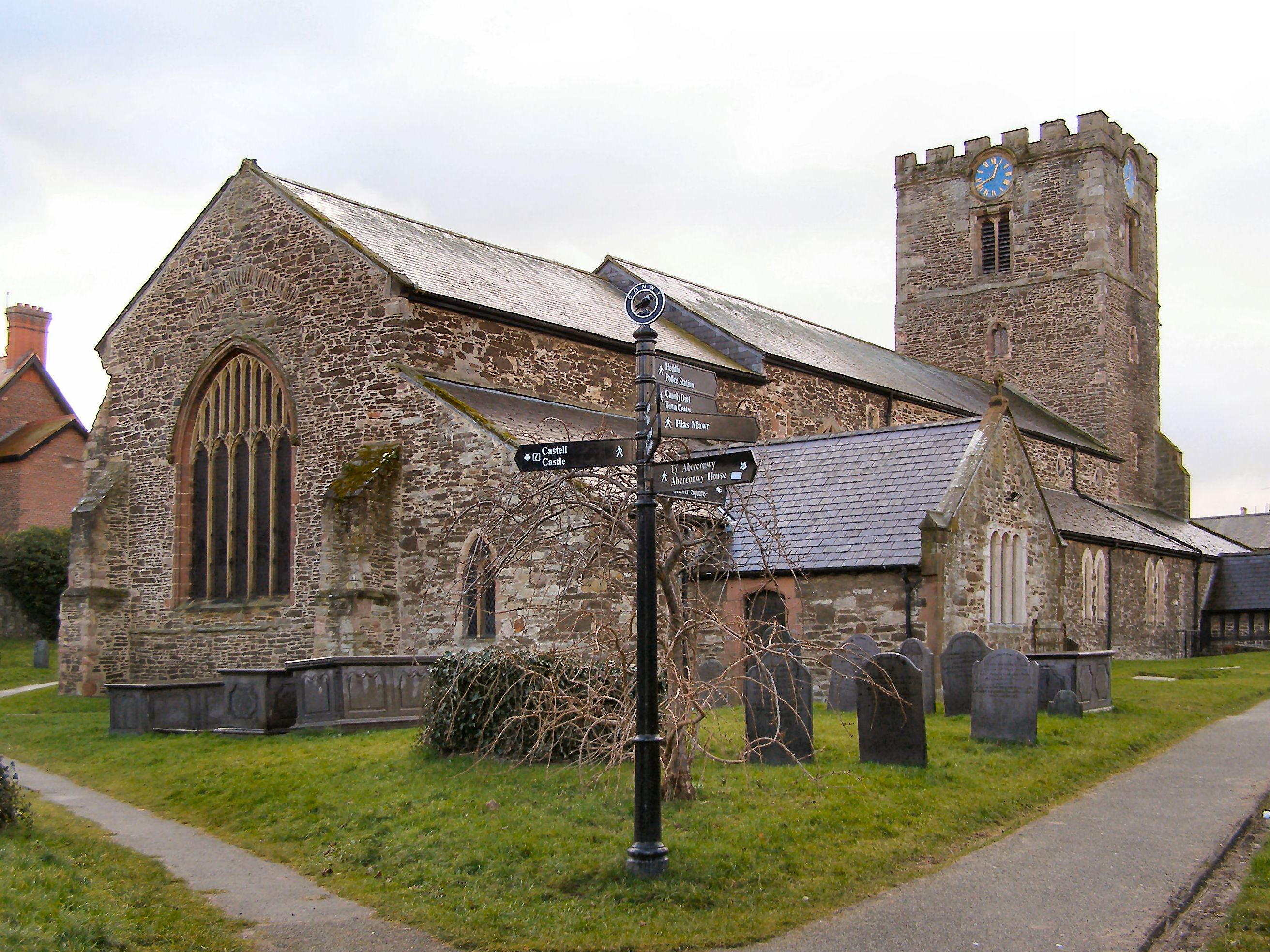 Church of Saint Mary and All Saints